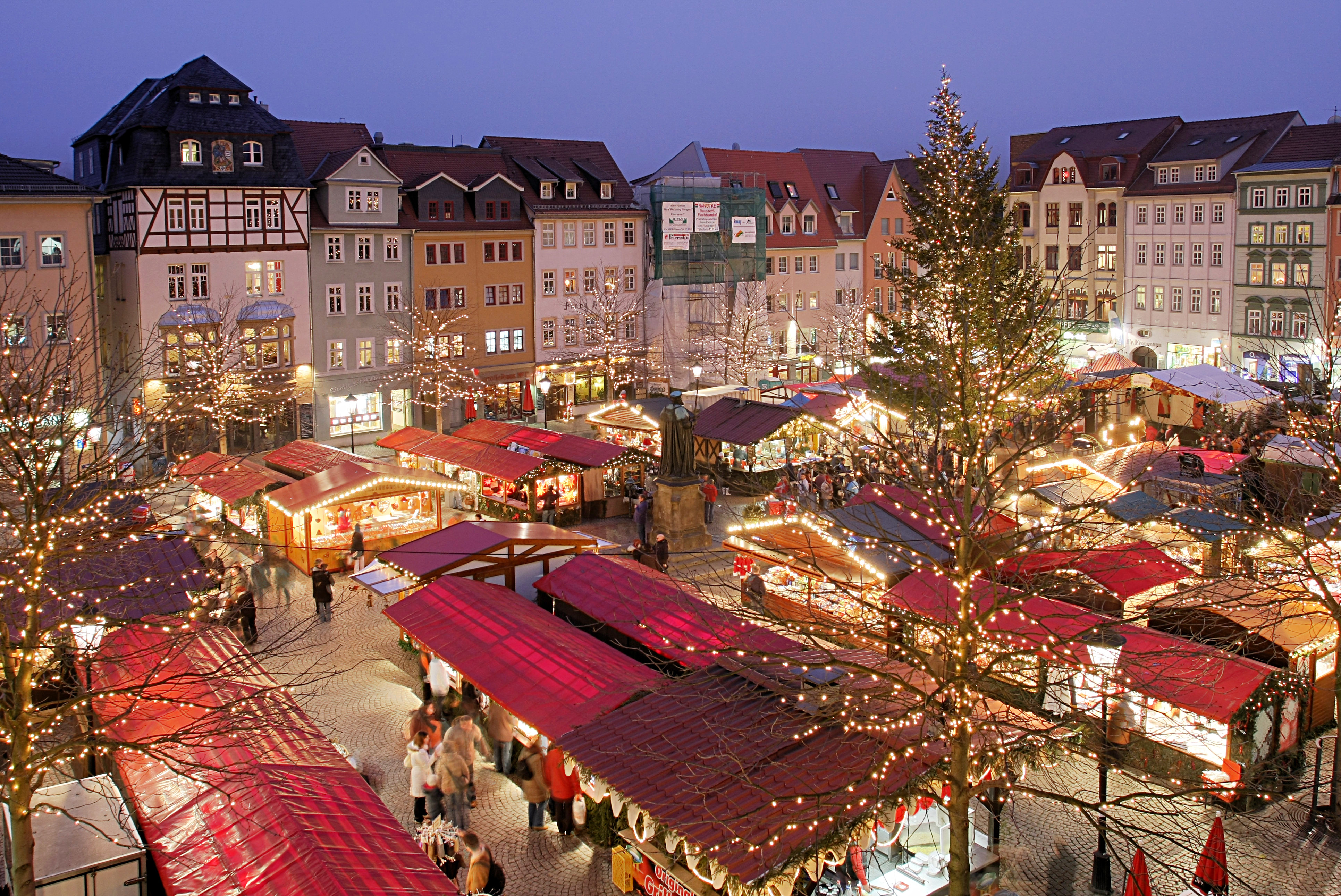 Weihnachtsmarkt (Christmas market) in Jena, Thuringia, Germany